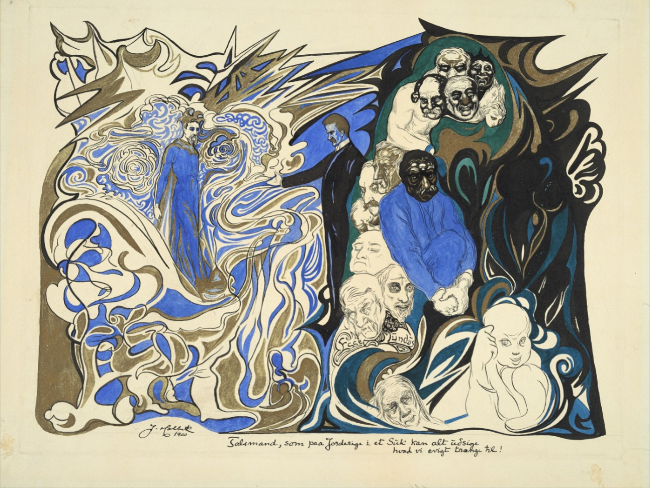 Spokesman